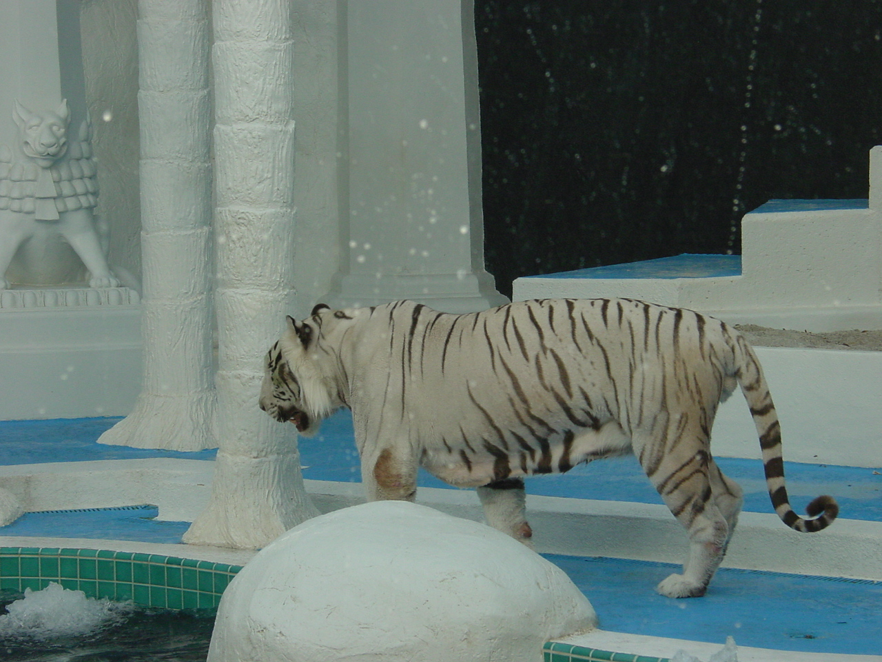 White Tigers at Mirage Hotel at Las Vegas